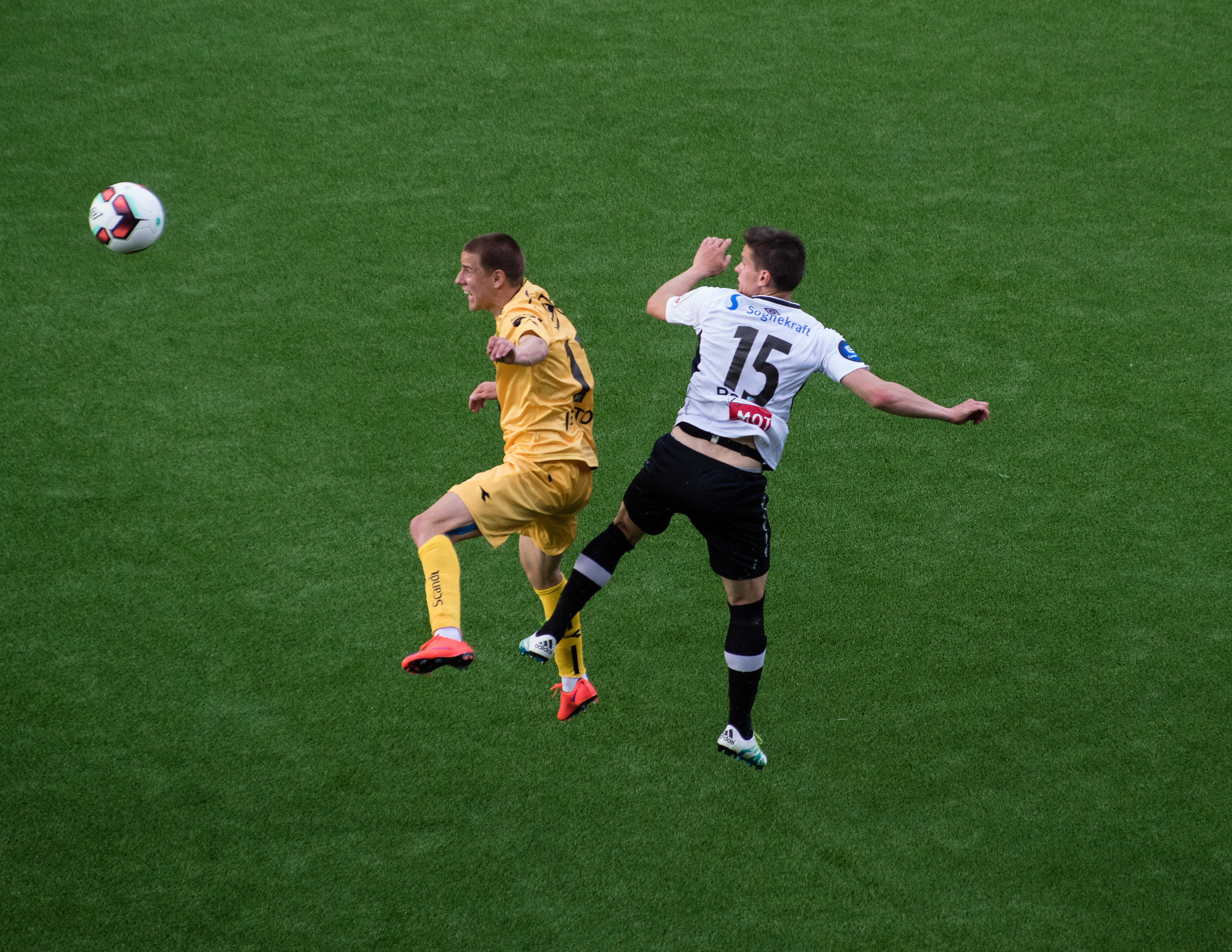 Milan Jevtović and Jukka Raitala.